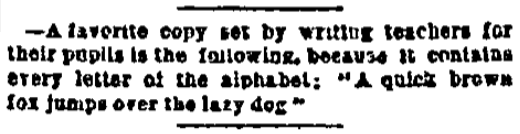 Scan of the Boston Journal for February 9, 1885, showing an item discussing "A quick brown fox jumps over the lazy dog" from a column titled "Current Notes"